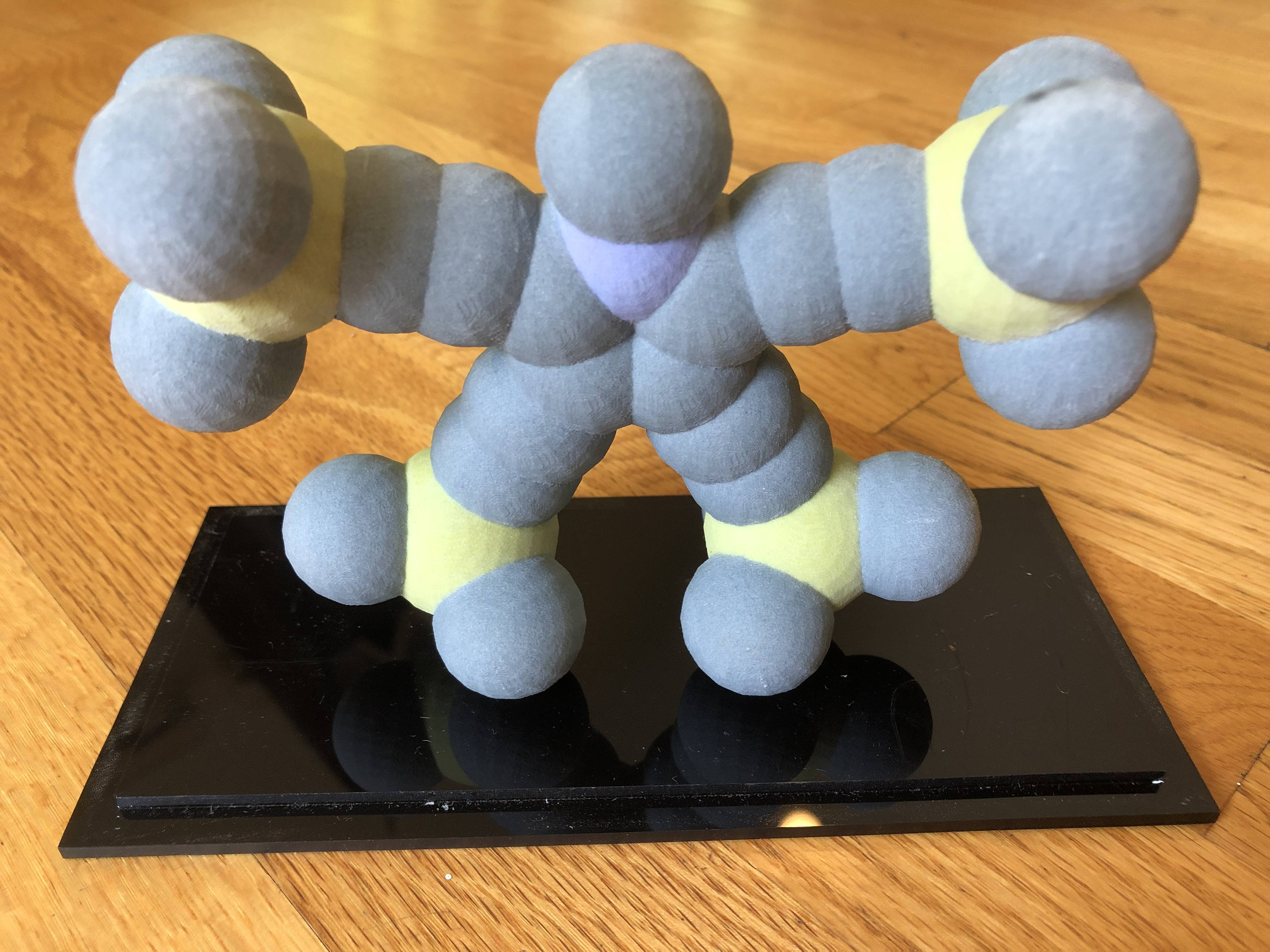 A 3D printed model of a molecule of 1-methyl-2,3,4,5-tetrakis((trimethylsilyl)ethynyl)-1H-pyrrole from its crystal structure, created using coordinates from the Cambridge Structural Database, and via the CCDC program Mercury.